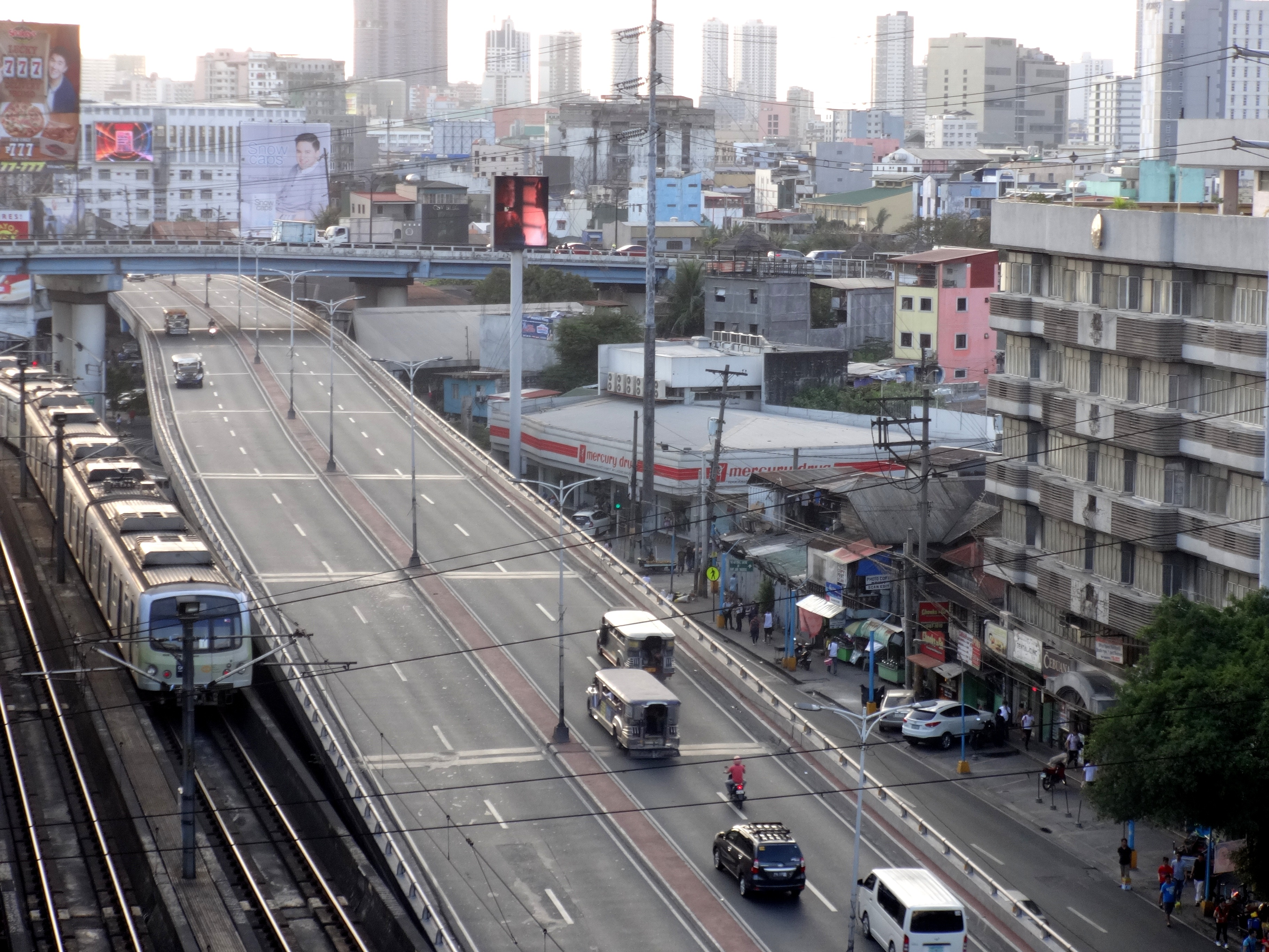 Nagtahan interchange and Line 2 guideway along Magsaysay Boulevard (N180), Santa Mesa, Manila